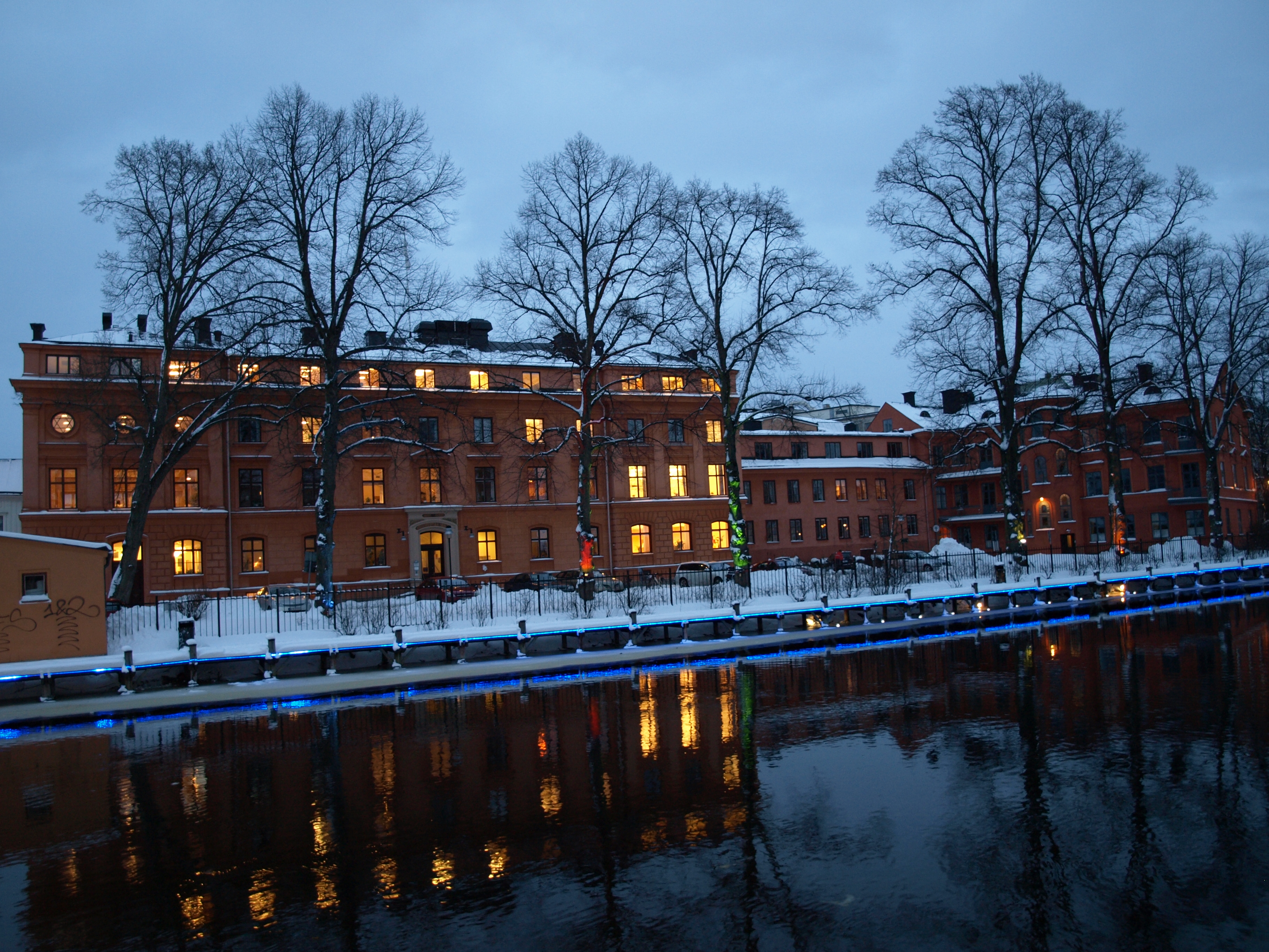 Fjellstedtska skolan in Uppsala, Sweden. Seen from the other side of the river Fyrisån.